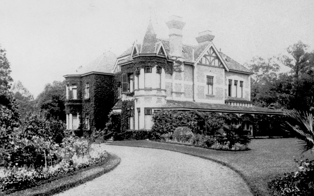 Chiselhurst, Centennial Avenue, Chatswood, NSW, Australia. Demolished about 1960. Built in 1892 by John de Villiers Lamb, later owned by Edward Carr Hordern.